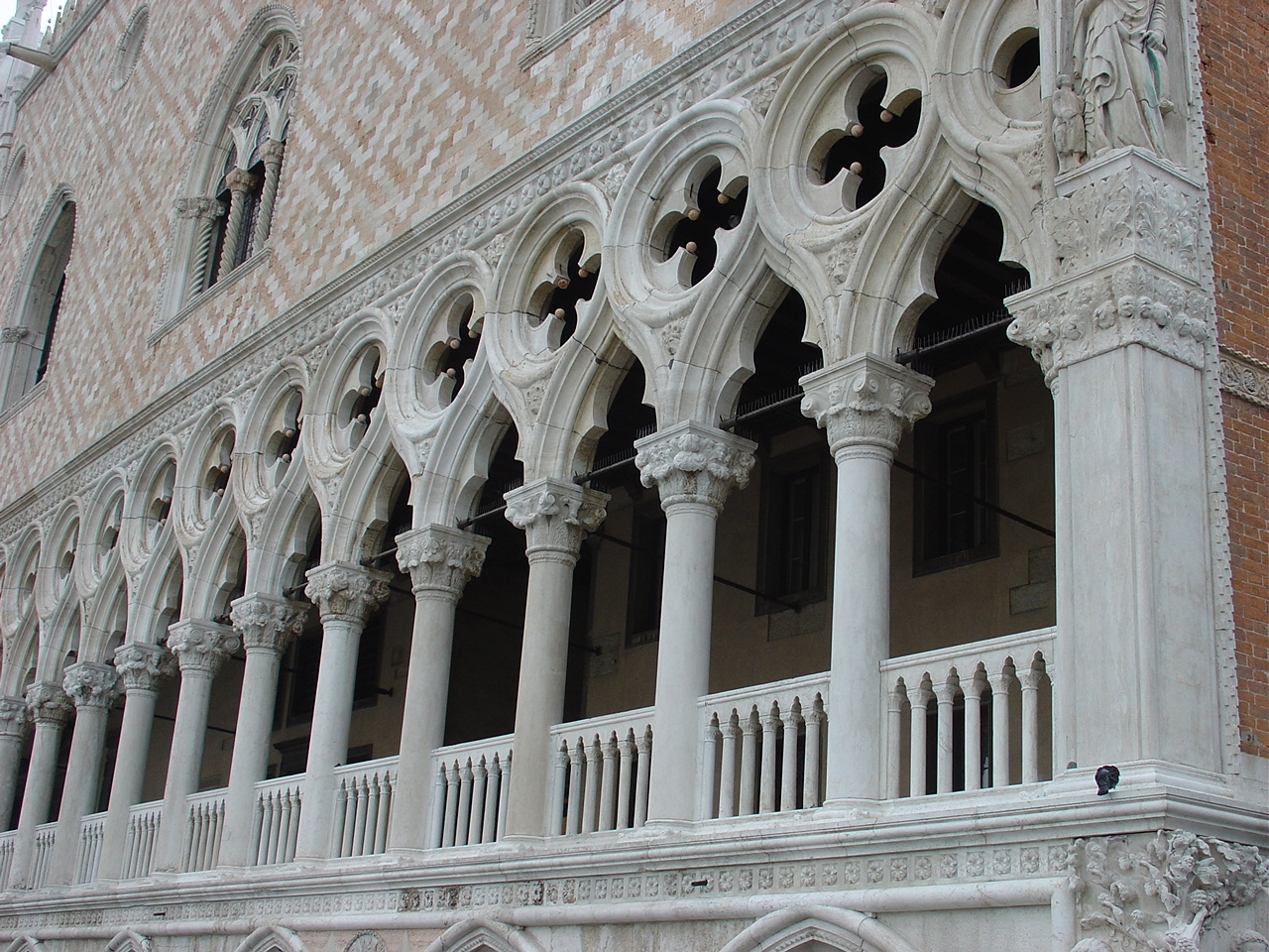 The Ducal Palace was the residence of the Doge up to the fall of the Venetian Republic in I797 a public palace and seat of the administration of justice.